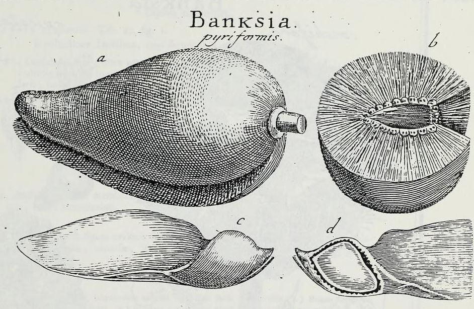 Engraving of Banksia pyriformis (Xylomelum pyriforme) published in 1788 in Gaertner's 'De Fructibus...